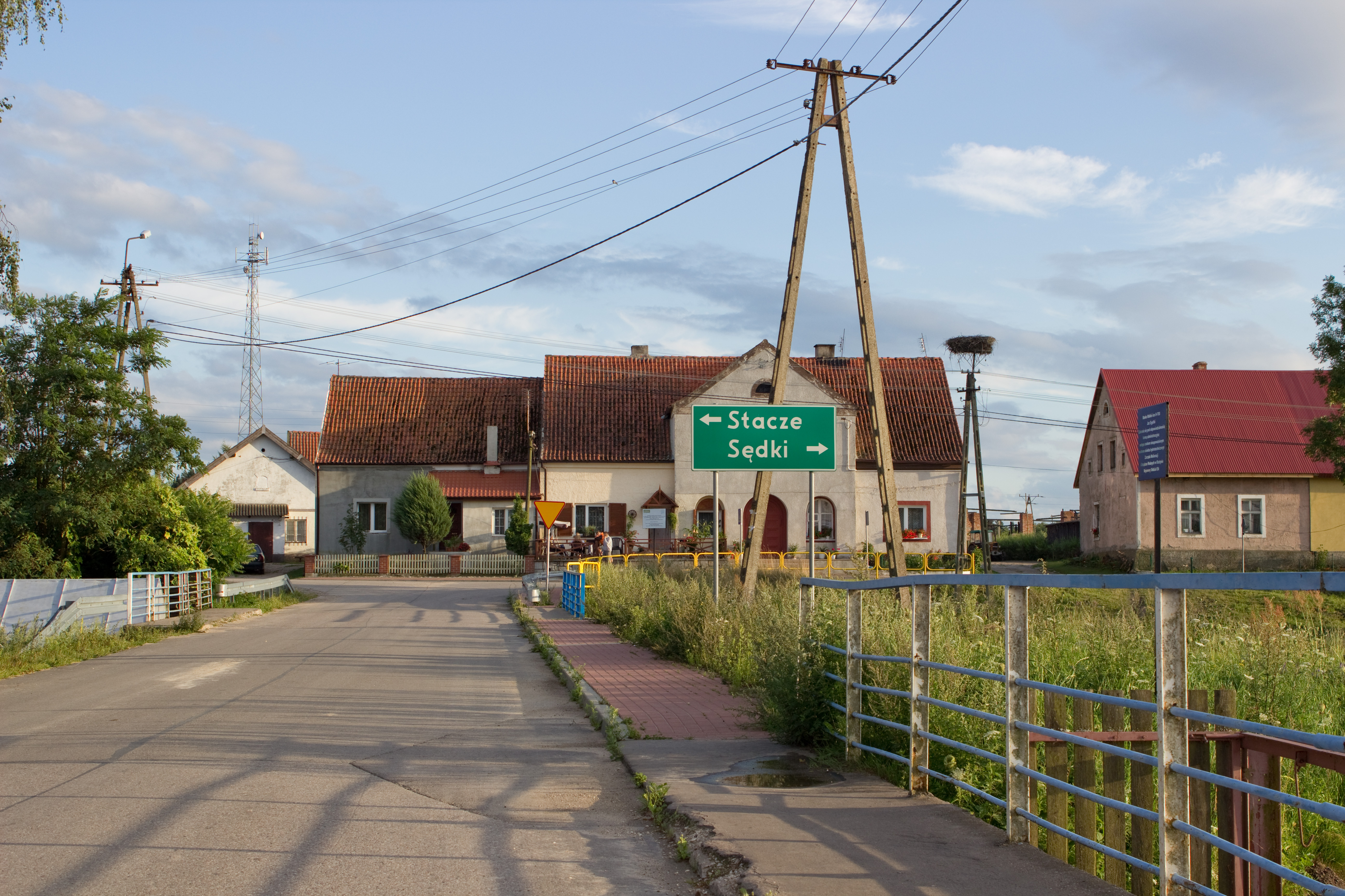 Sypitki, gmina Kalinowo, powiat ełcki, Warmian-Masurian Voivodeship